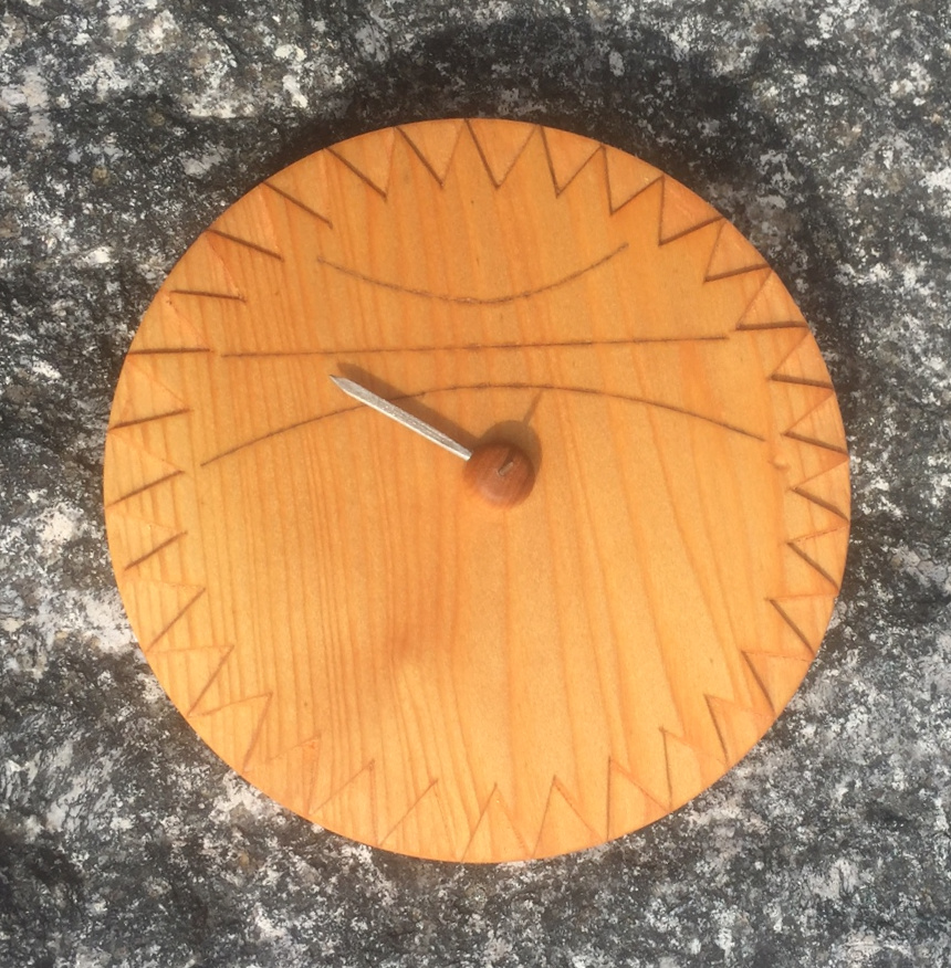 Modern speculative replica of the Uunartoq Disc with gnomonic lines inscribed. The downward concave line at the bottom is for the summer solstice; the straight middle line is for the vernal and autumnal equinoxes; the top convex line is for the winter solstice. The original Uunartoq disc artifact does not feature a winter solstice gnomonic line, which would likely have been impractical at the high latitude where the disc was discovered.